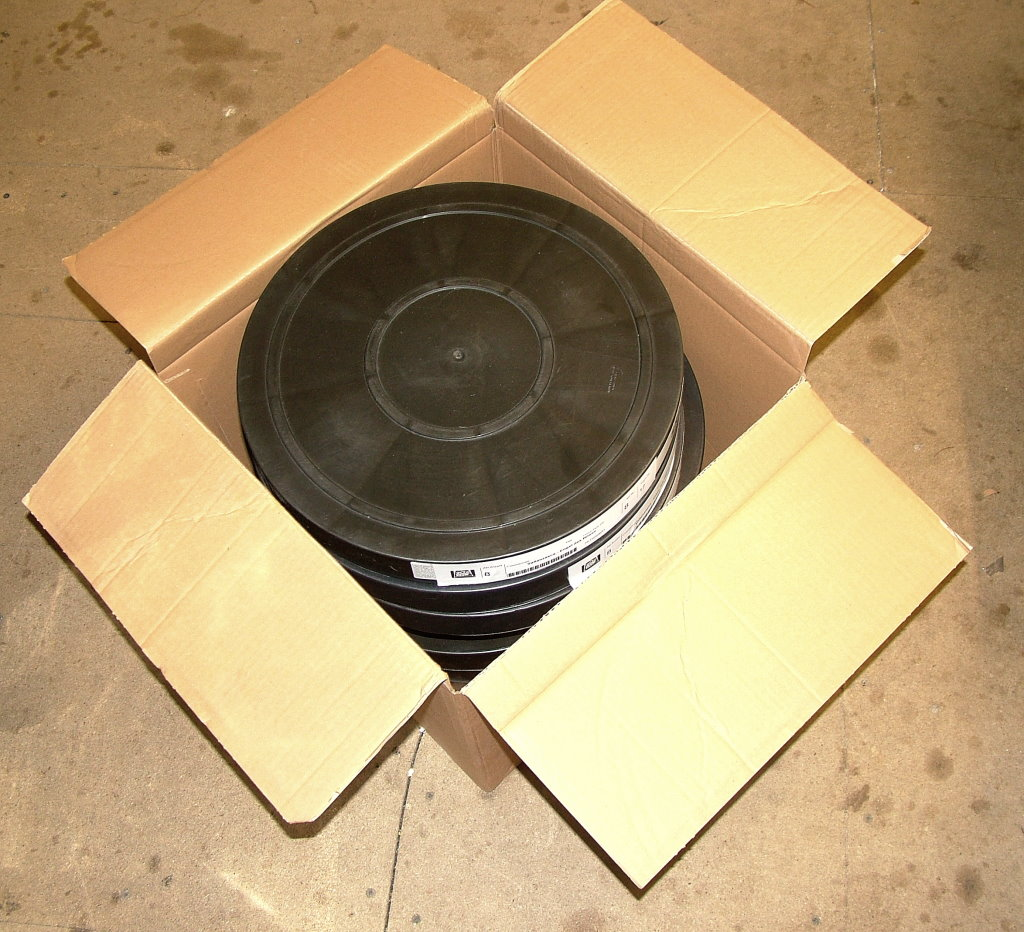 cardboard box used to transport film prints, filled with eight reels in boxes